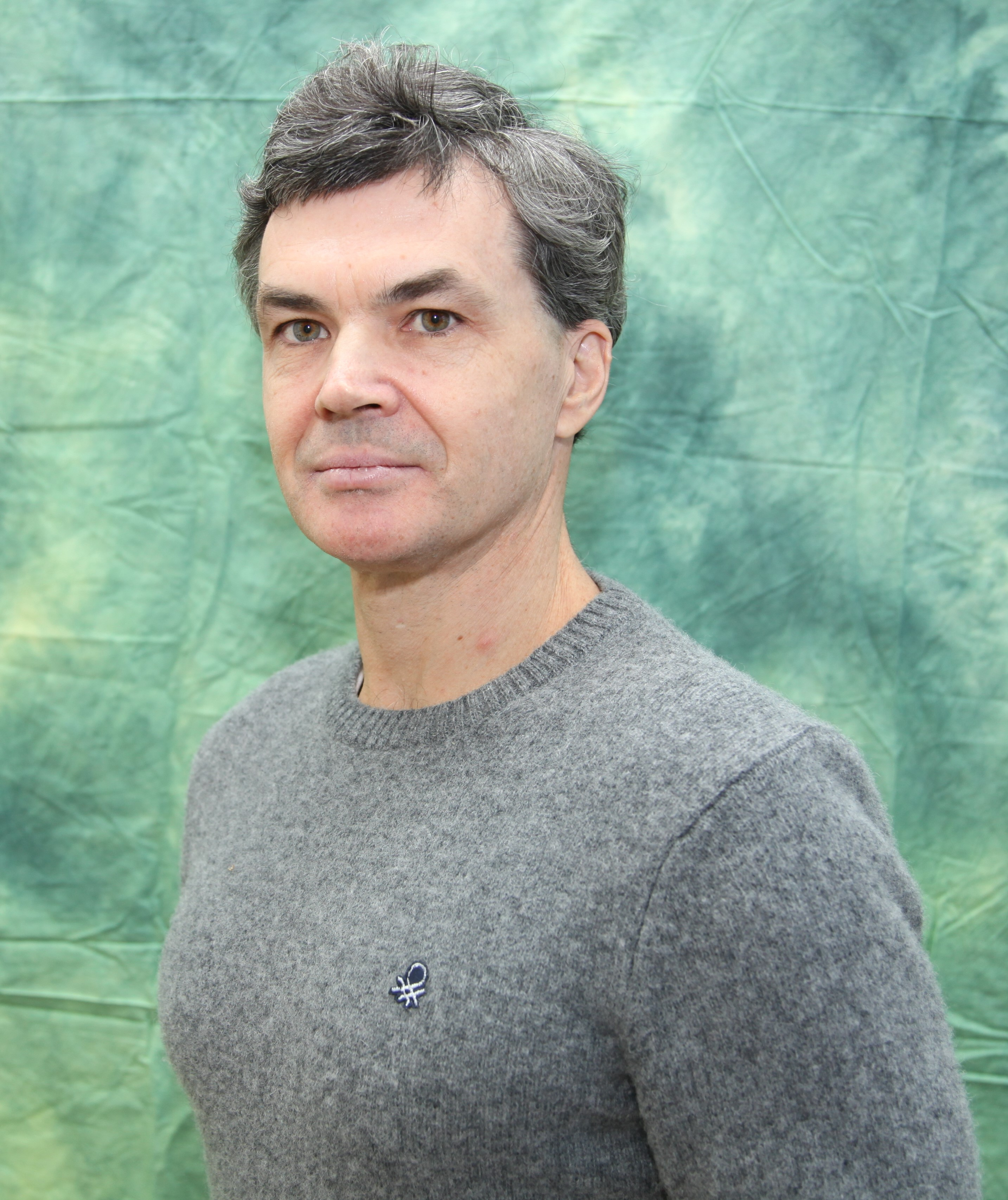 Druzhinin_A_G